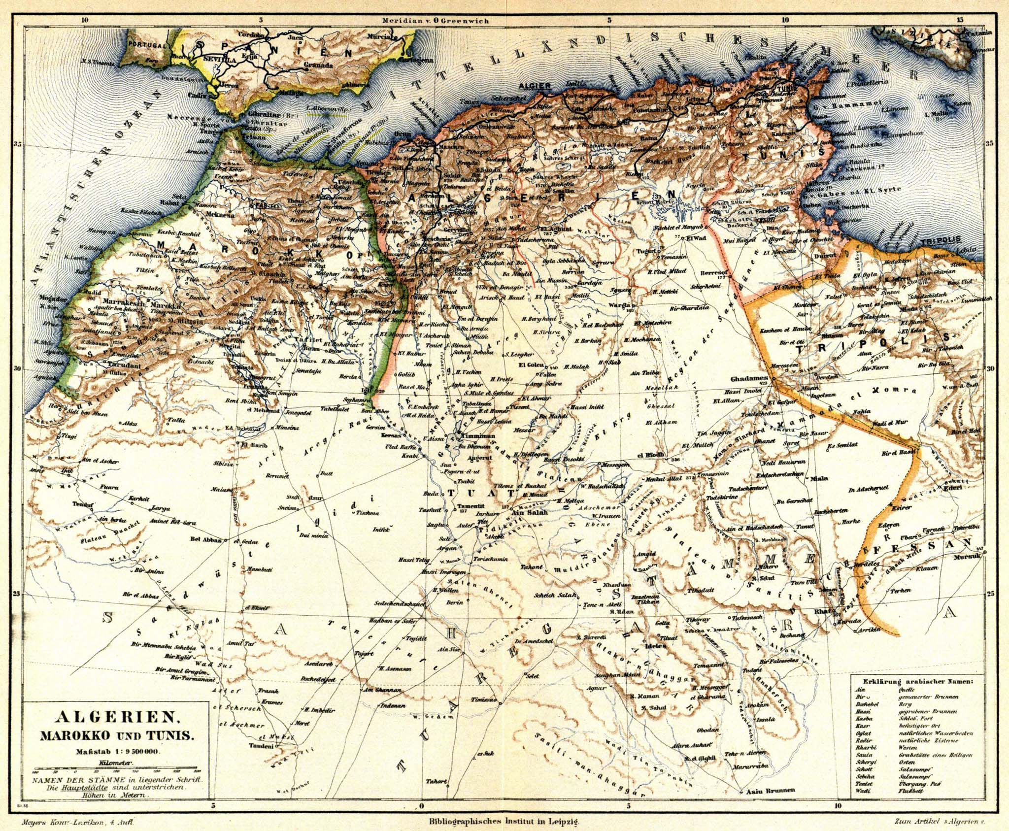 Meyers Konversationslexikon — Vol. 1 — map to page 347 — Algeria, Morocco and Tunisia